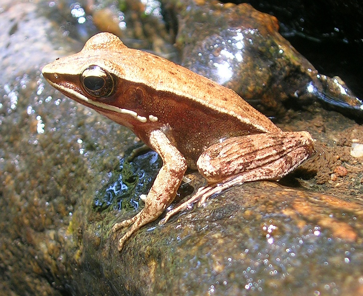 Hylarana aurantiaca from the Brahmagiris, Coorg